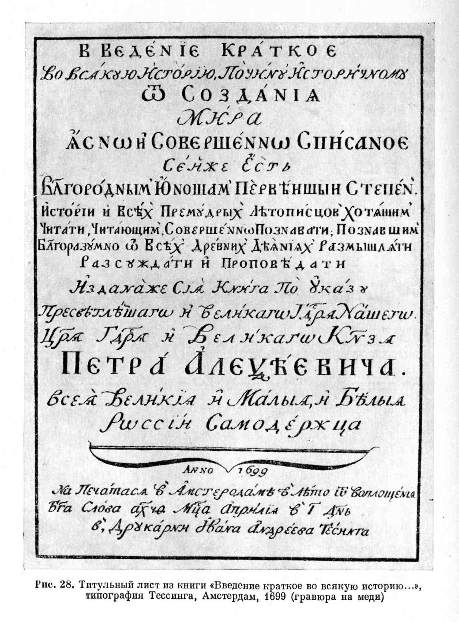 Title-page of the book, printed in Jan Tessing's prunting plant. Amsterdam, 1699.